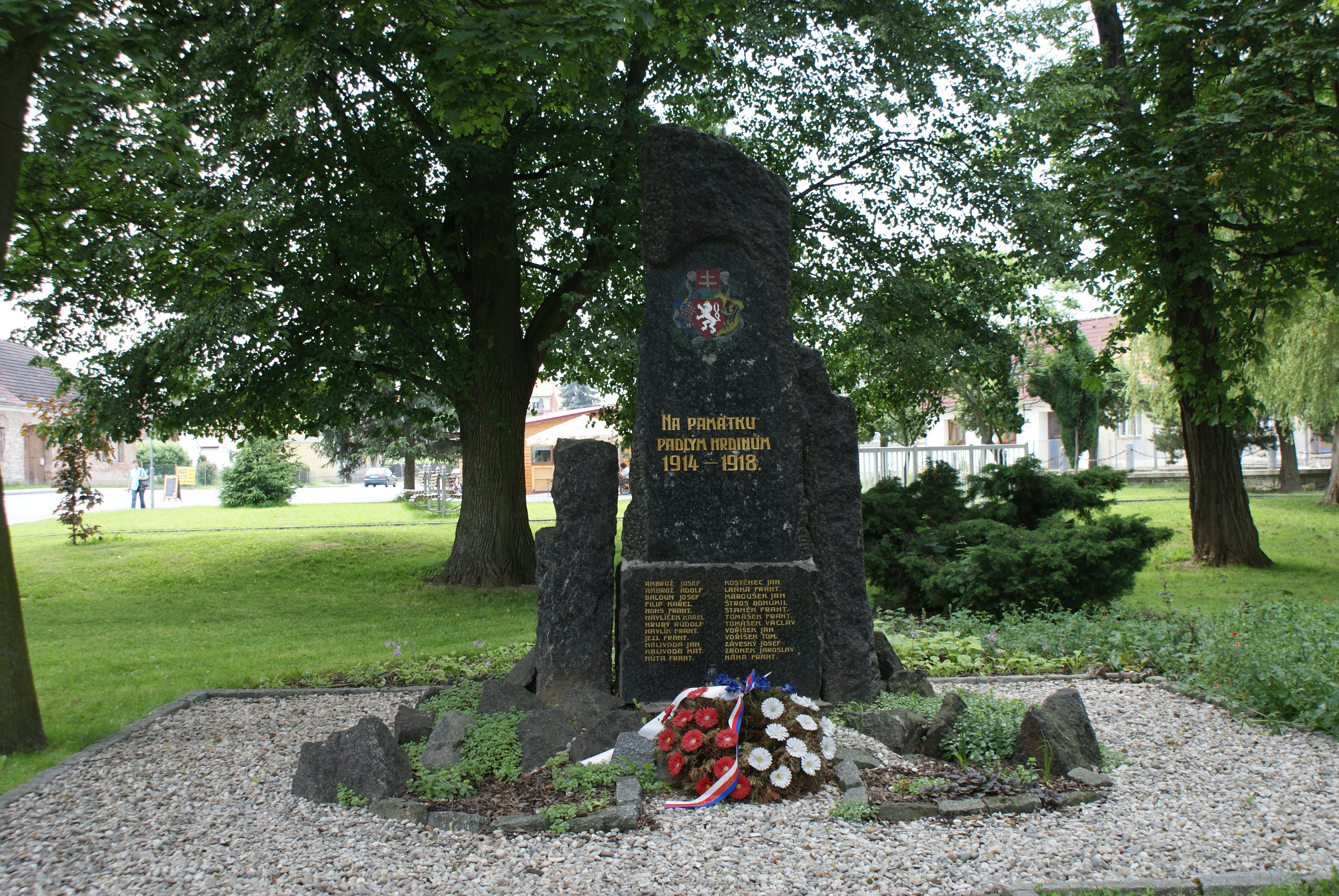 Cehnice, village in Strakonice district, Czech Republic, WWI victims memorial on the village commons. Česky: Cehnice, okres Strakonice, památník obětem 1. svět. války na návsi